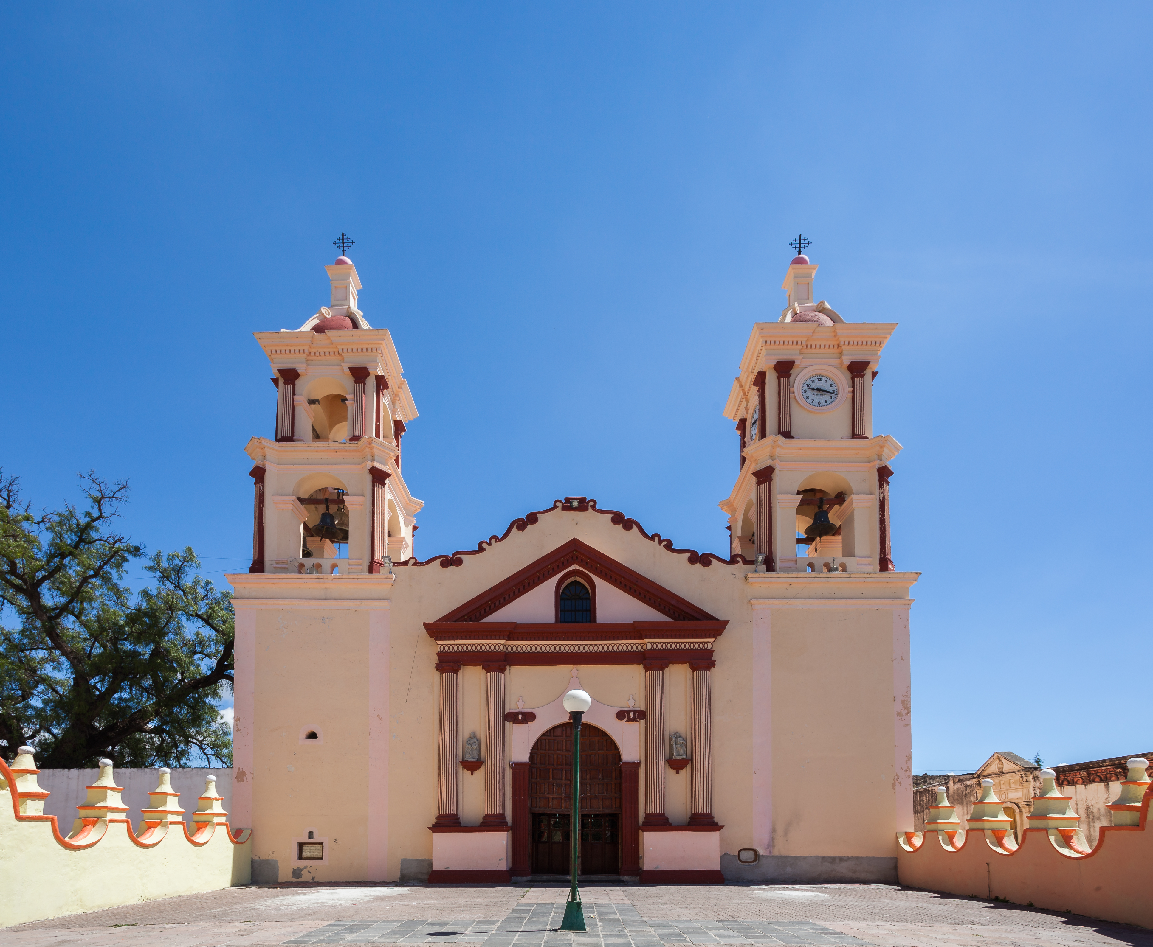 Hermitage of St Peter, Tepeyahualco, Puebla, Mexico